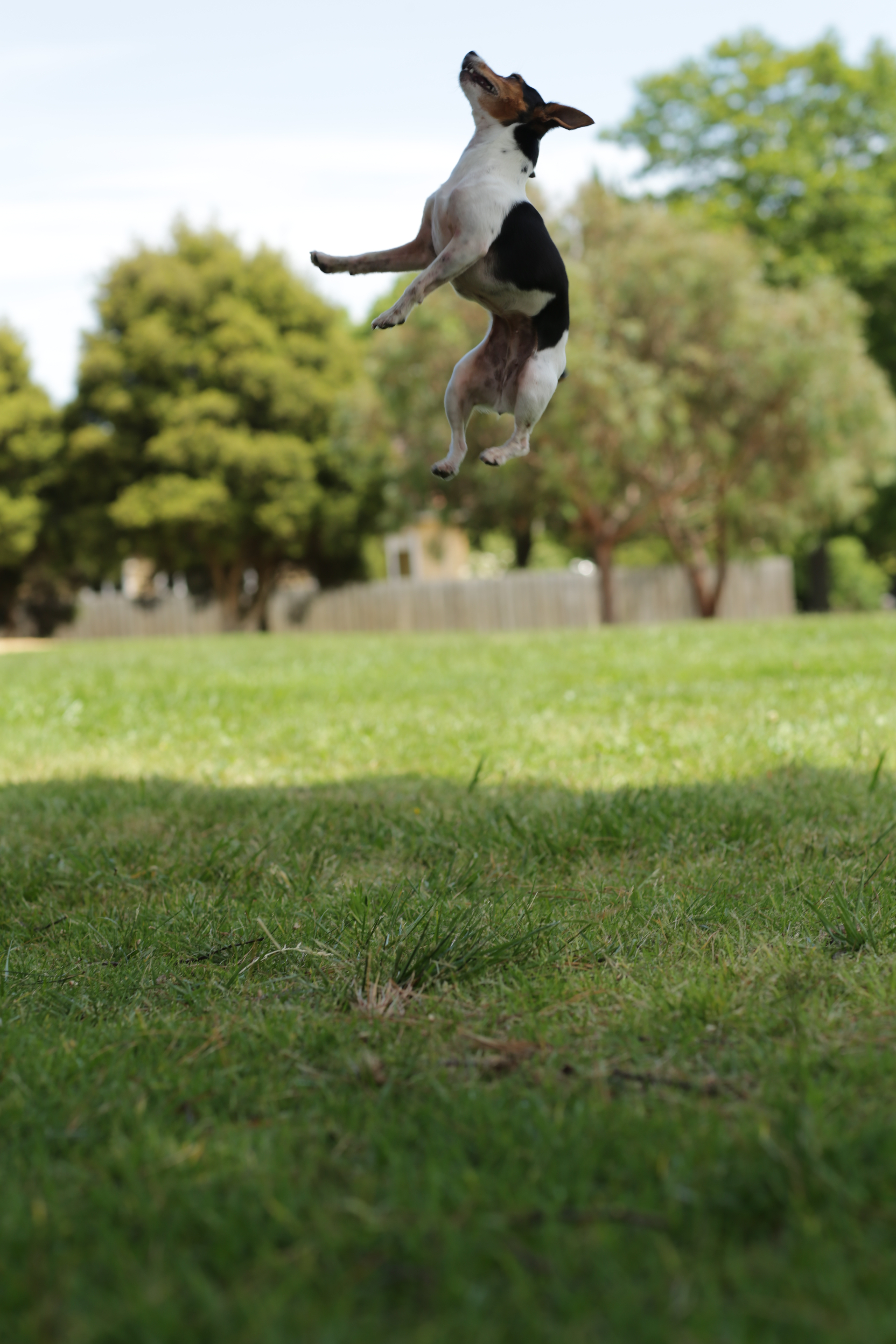 This is a photo of Rosie the Australian Champion Tenterfield Terrier. She can jump very high.